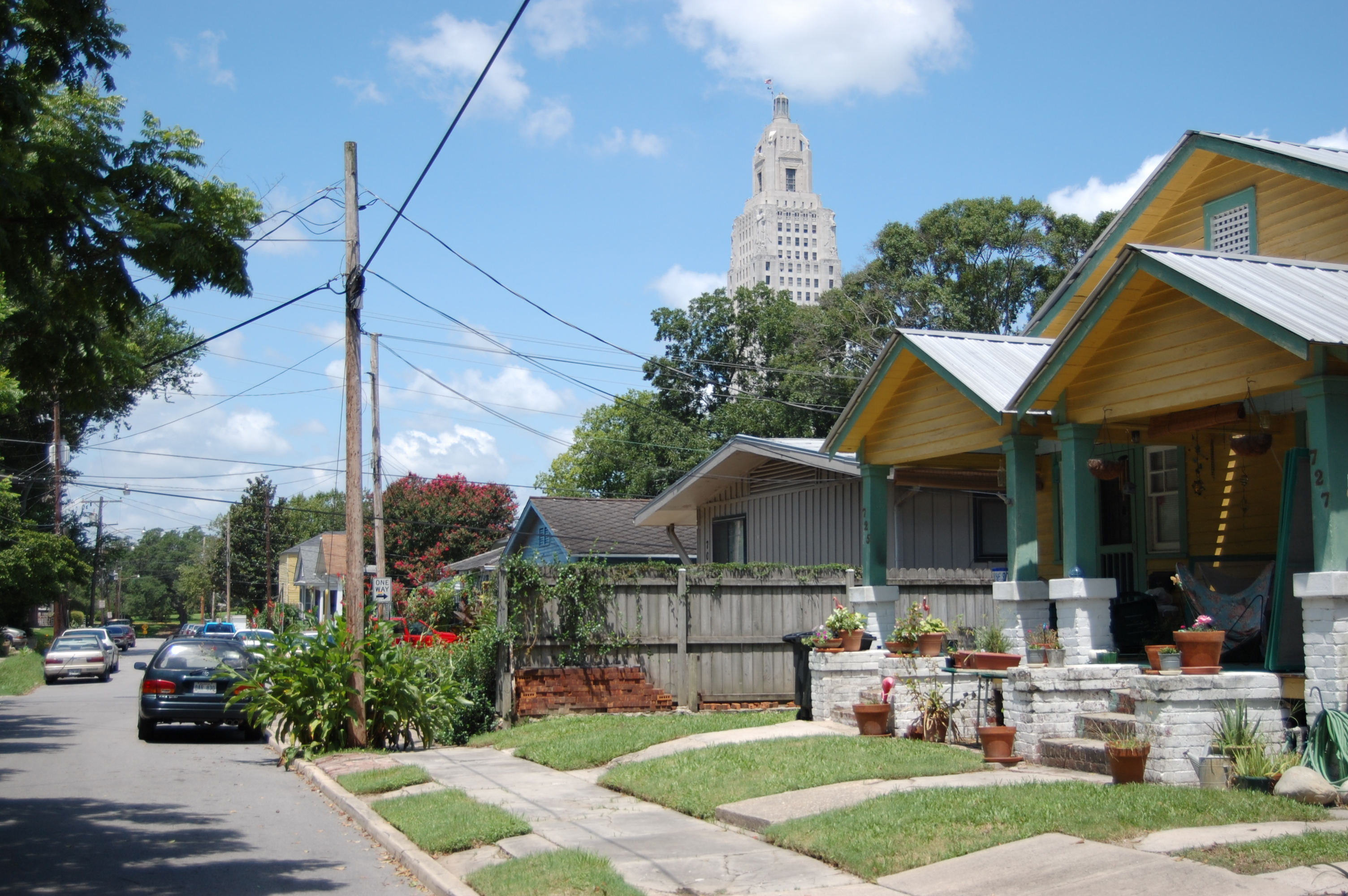 Lakeland Drive in Spanish Town, Baton Rouge, LA, with capitol in the background.